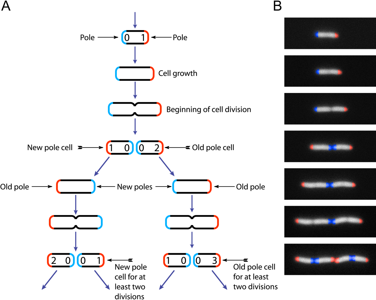 Schematic diagram of the life cycle of Escherichia coli. Original caption During cell division, two new poles are formed, one in each of the progeny cells (new poles, shown in blue). The other ends of those cells were formed during a previous division (old poles, shown in red). (A) The number of divisions since each pole was formed is indicated by the number inside the pole. Using the number of divisions since the older pole of each cell was formed, it is possible to assign an age in divisions to that cell, as indicated. Similarly, cells that consecutively divided as a new pole are assigned a new pole age, based on the current, consecutive divisions as a new pole cell. (B) Time-lapse images of growing cells corresponding to the stages in (A). False color has been added to identify the poles.